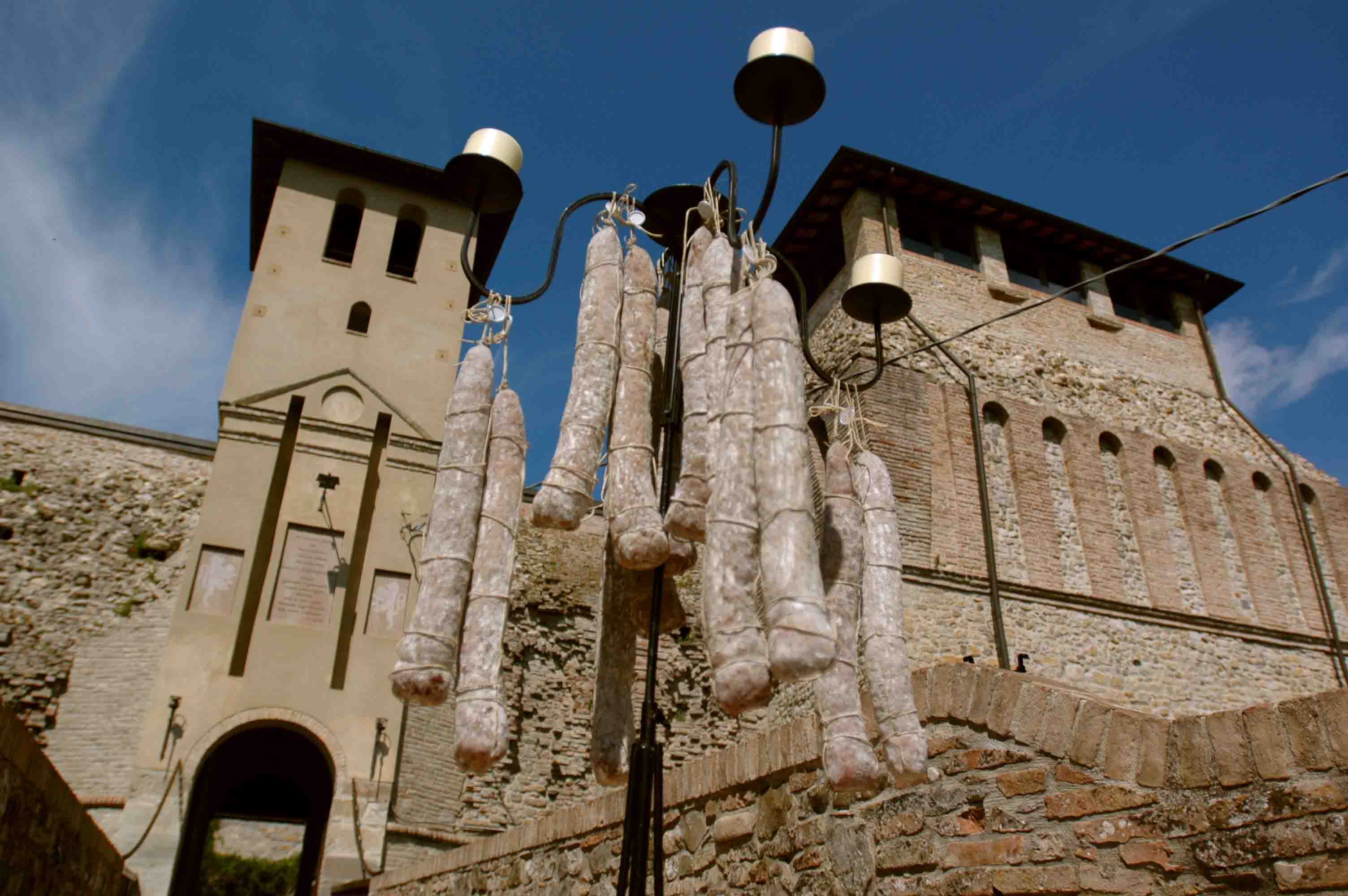 Museum of the Felino's salami - Felino (PR) - Italy